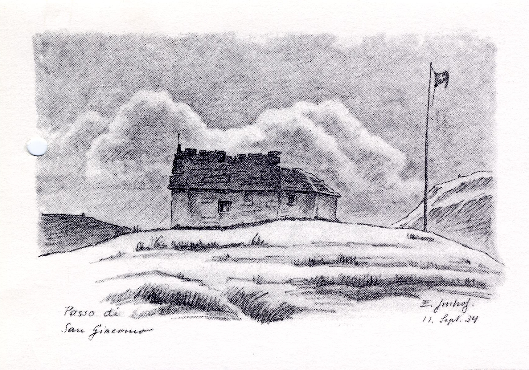 Eduard Imhof - Passo di San Giacomo